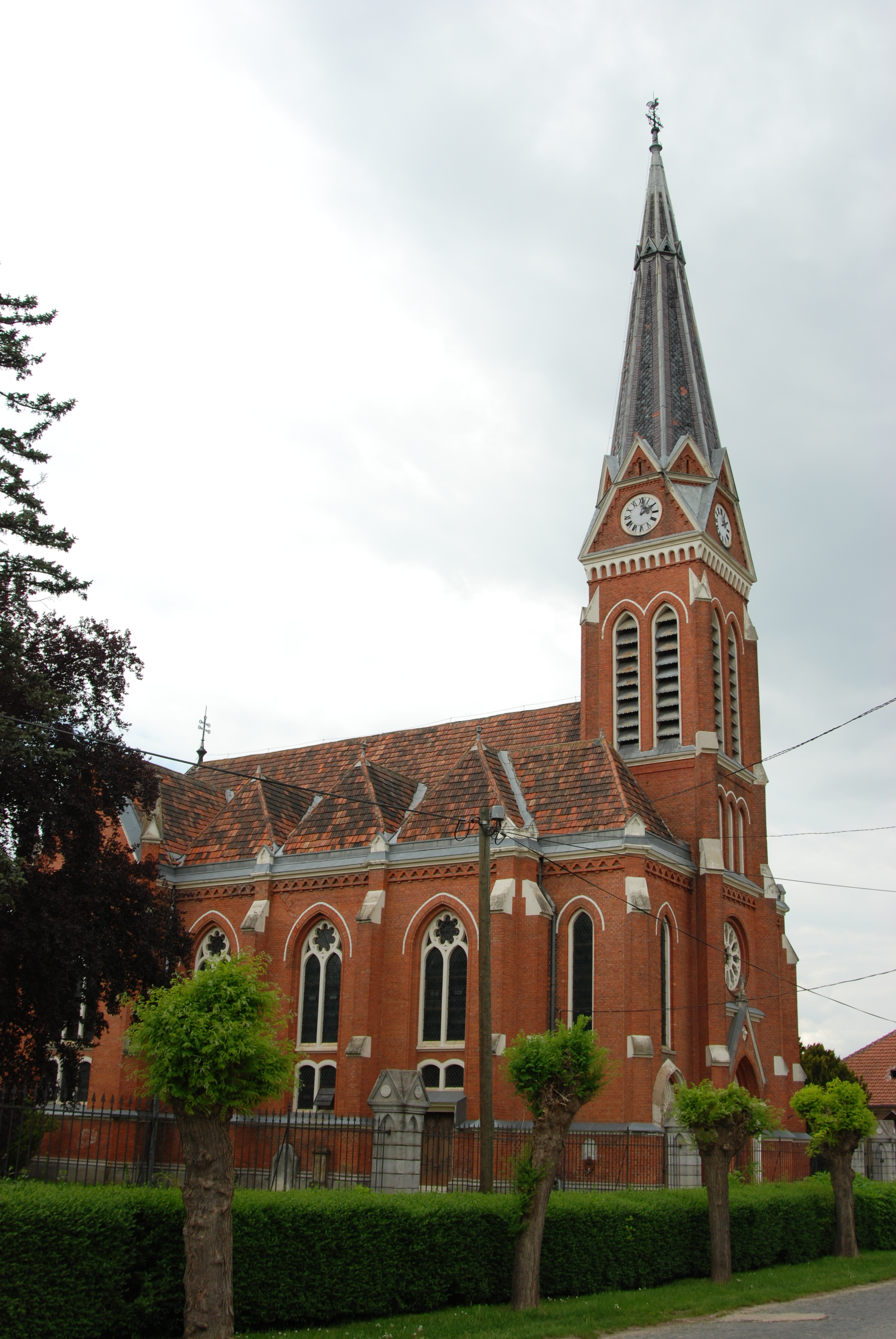 Evangelische Kirche Körmend